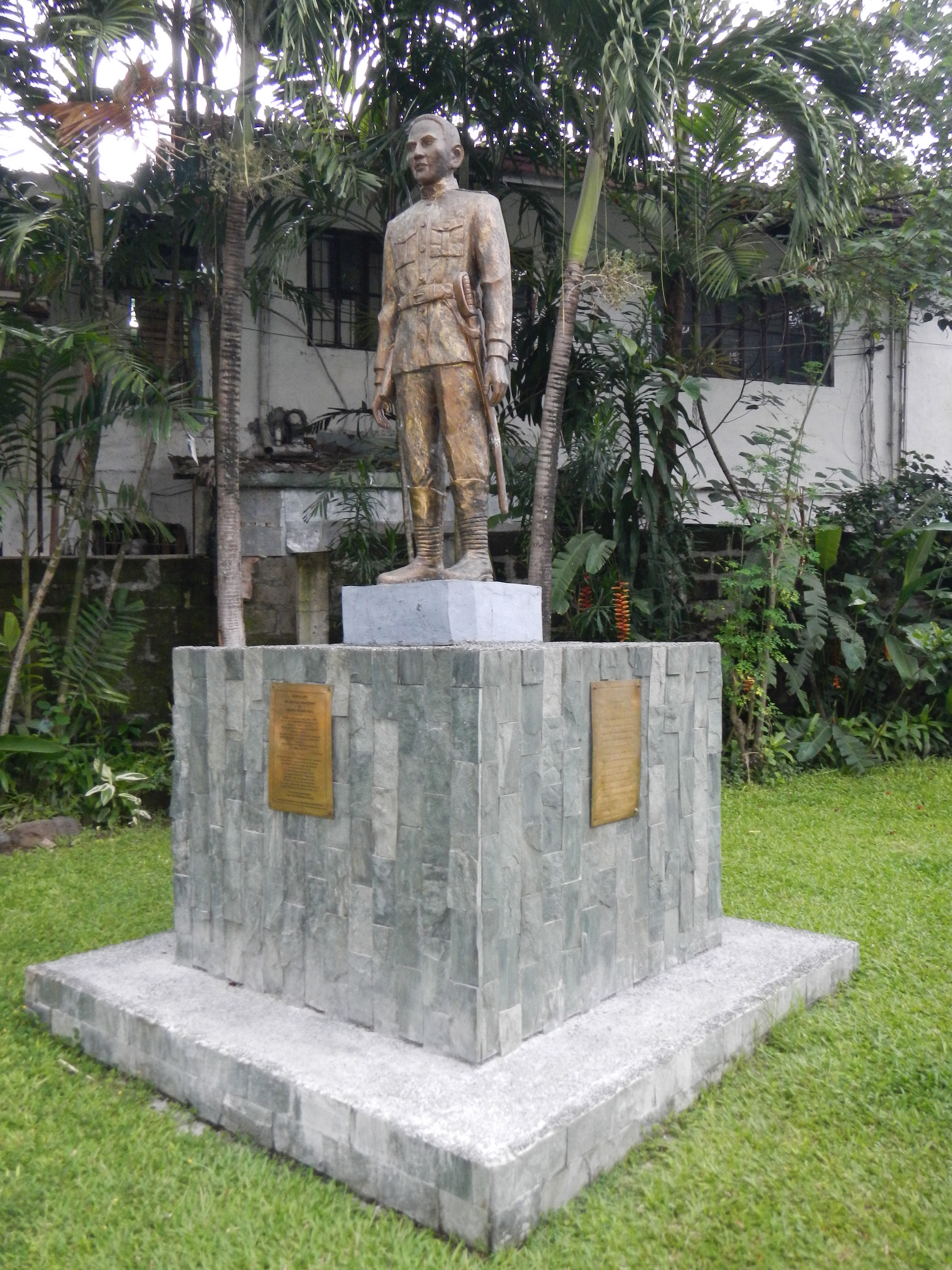 General Paciano Rizal Monument, Tomb, Park and Shrine in - Los Baños, Laguna[1] - Paciano Rizal[2] (full name: Paciano Rizal Mercado y Alonso Realonda) (March 9, 1851 – April 13, 1930) was a Filipino general and revolutionary, and the older brother of José Rizal, [3] the national hero of the Philippines. [4] Paciano Alonso Realonda Rizal Mercado (1851 - 1930) Rizal kin move out of crowded city cemetery June 23rd, 2013 A Leader We Need to Know: General Paciano Rizal Los Baños, Laguna. Pre Paciano’s house is just beside the Municipal hall of Los Baños. [5] Los Baños holds month-long Yuletide fete Los Banos Things to Do [6] commanding view of Laguna de Bay (Laguna Lake), the coastal areas of Calamba and Los Baños, and the mountainous parts of Rizal province on the other side of the lake. --- Los Baños Therapeutic Massage Center and Health Spa, and the playground in Paciano Rizal Park & remains of the Yatco pier, the Floating Restaurant. -- The Nature and Science City of Los Baños is a first class urban municipality in the province of Laguna, Philippines - 2010 census, it has a population of 101,884 inhabitants, total land area of 56.5 square kilometers.